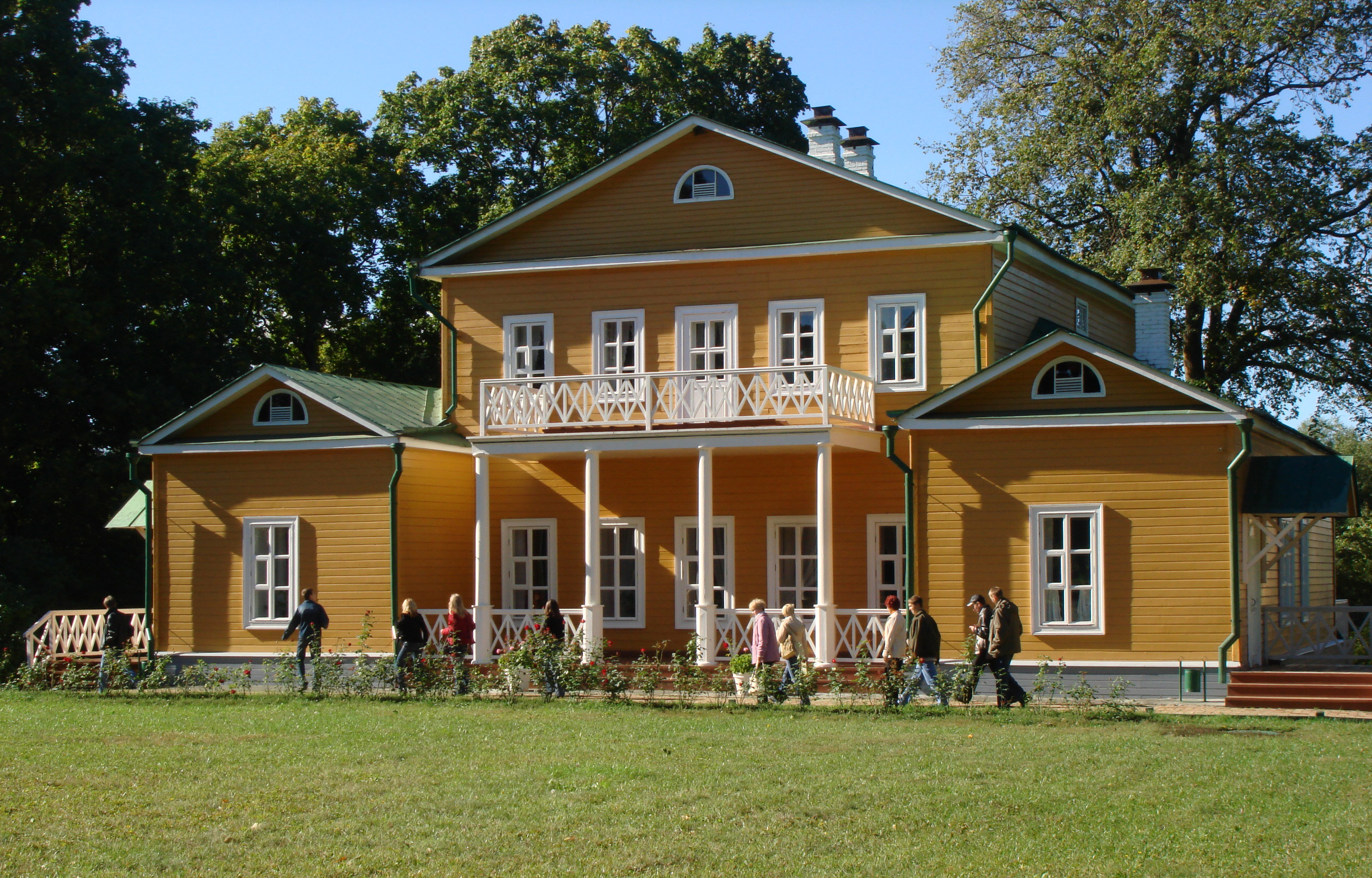 Lermontov's house from Tarkhany.